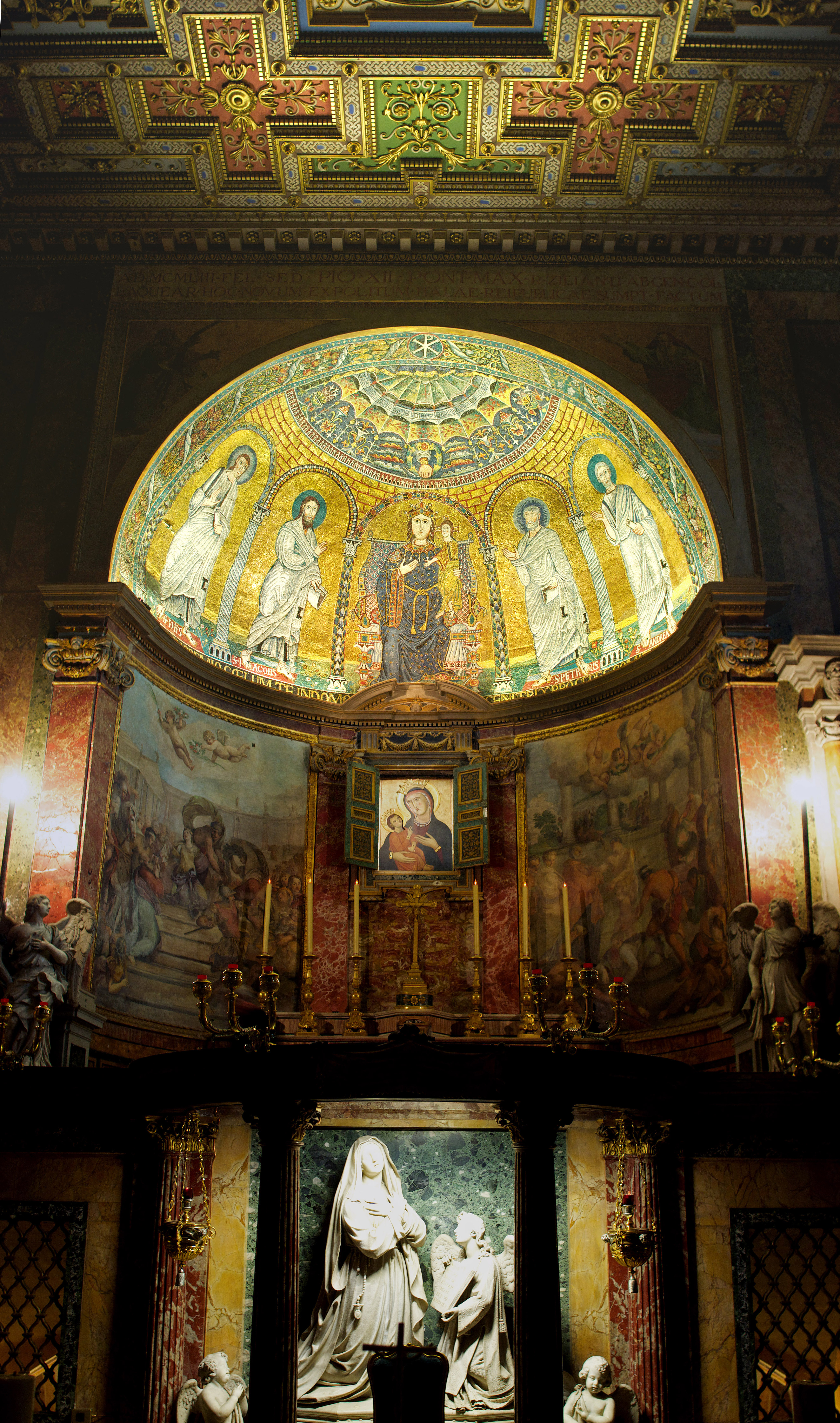 Santa Francesca Romana altar previously known as Santa Maria Nova ( Roman Forum )